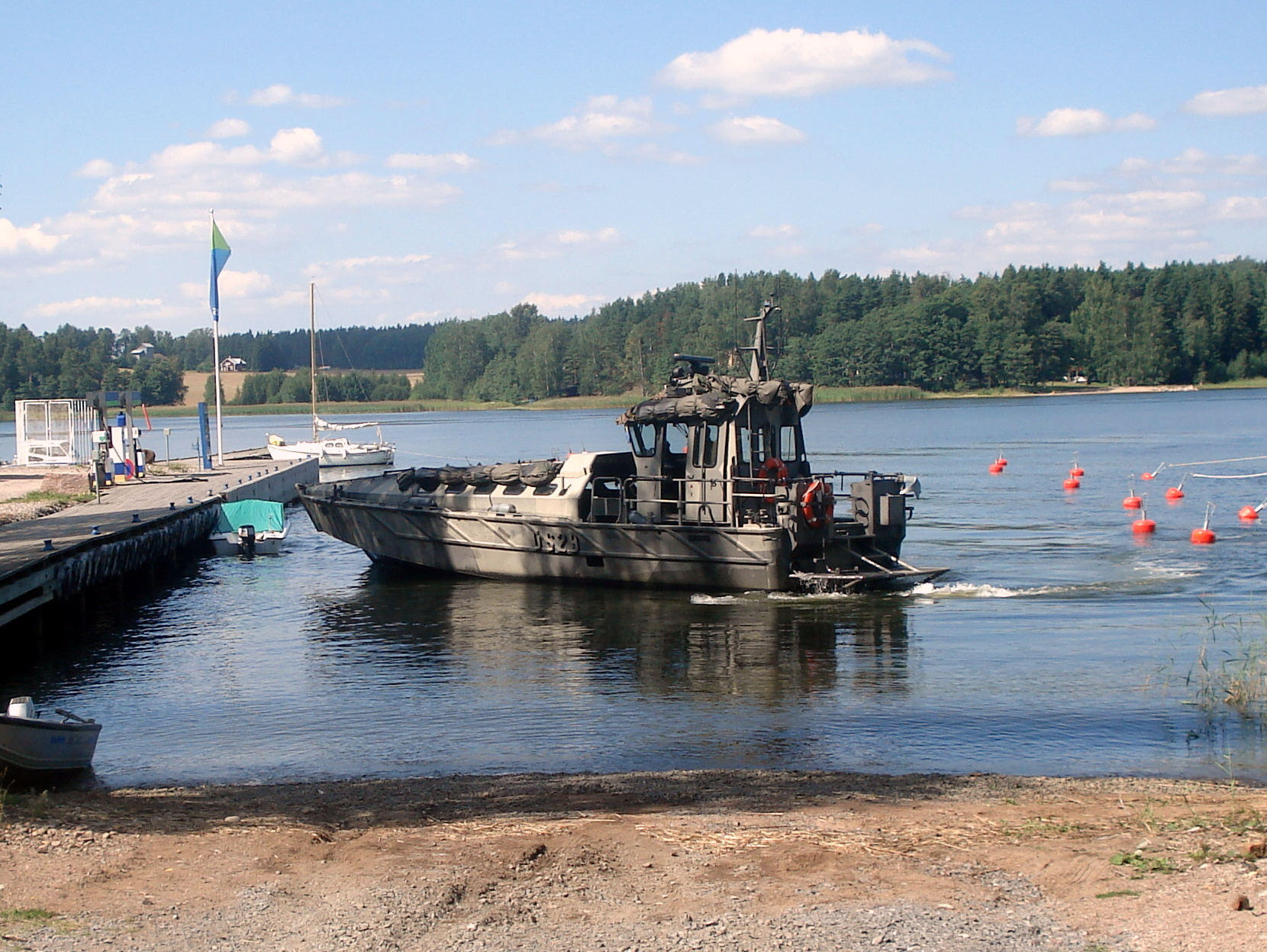 The Jurmo class landing craft is a type of vessel in use by the Finnish Navy. Perniö, Finland.